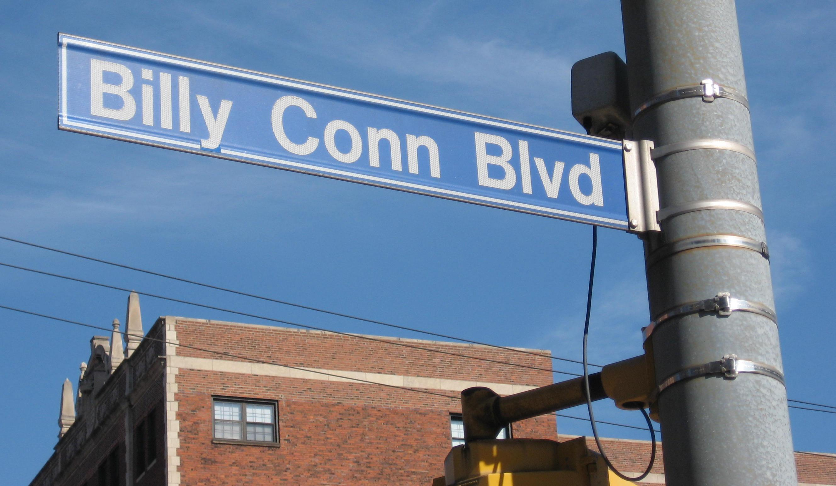 Billy Conn Boulevard, Pittsurgh, PA. Street sign for Billy Conn Boulevard in Pittsburgh40°26′59.2″N 79°57′2.7″W / 40.449778°N 79.95075°W